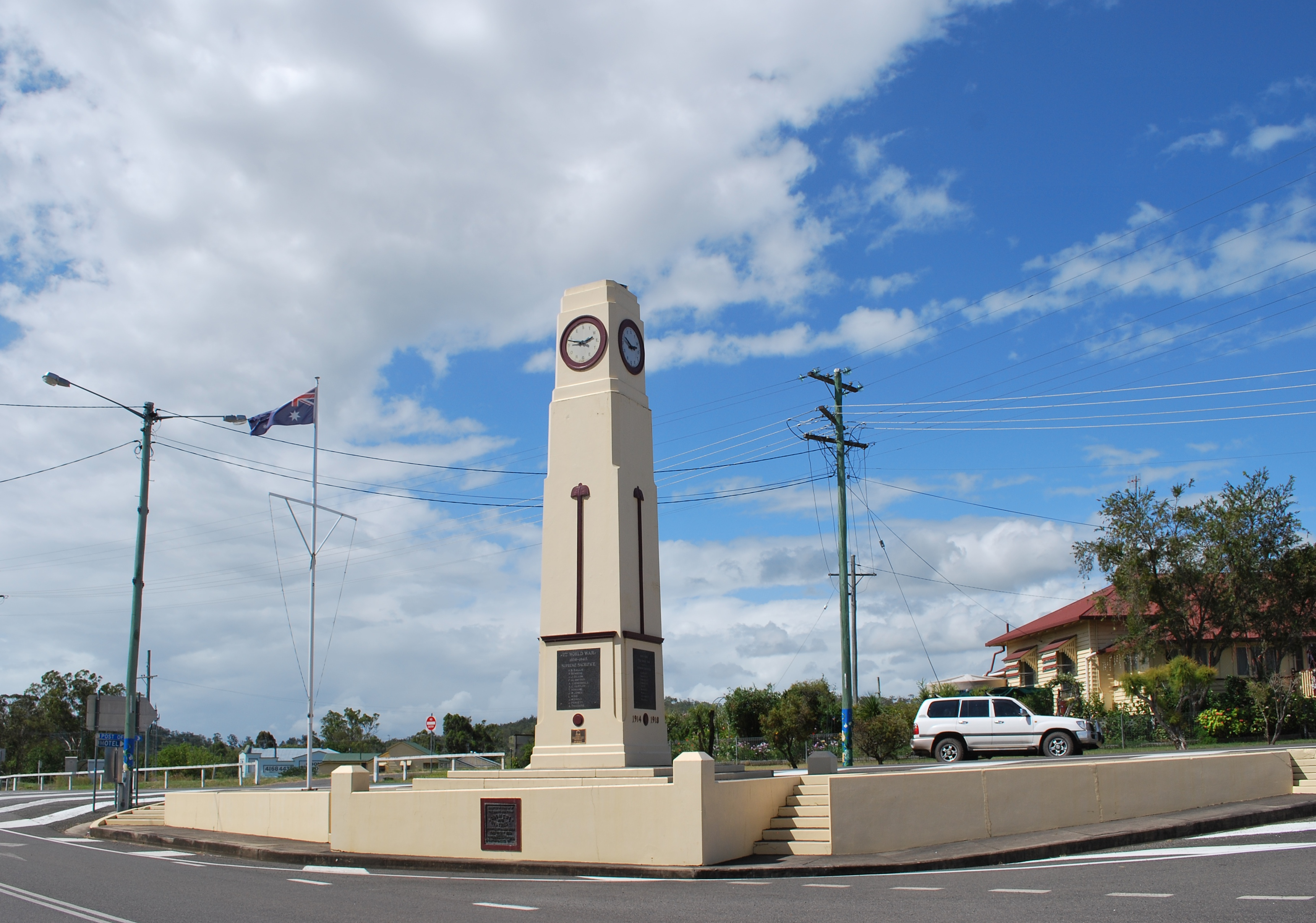 War memorials in Goomeri, Queensland. Queensland Heritage Register item 15417